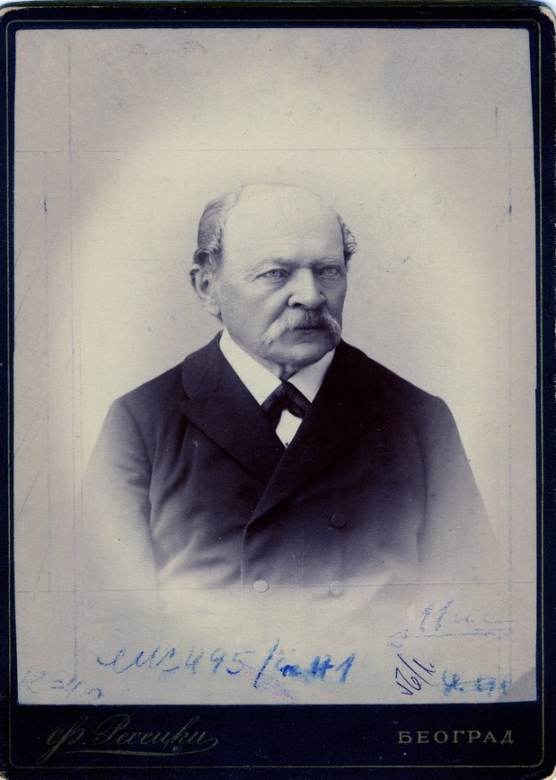 Dr Aćim Medović, portrait.